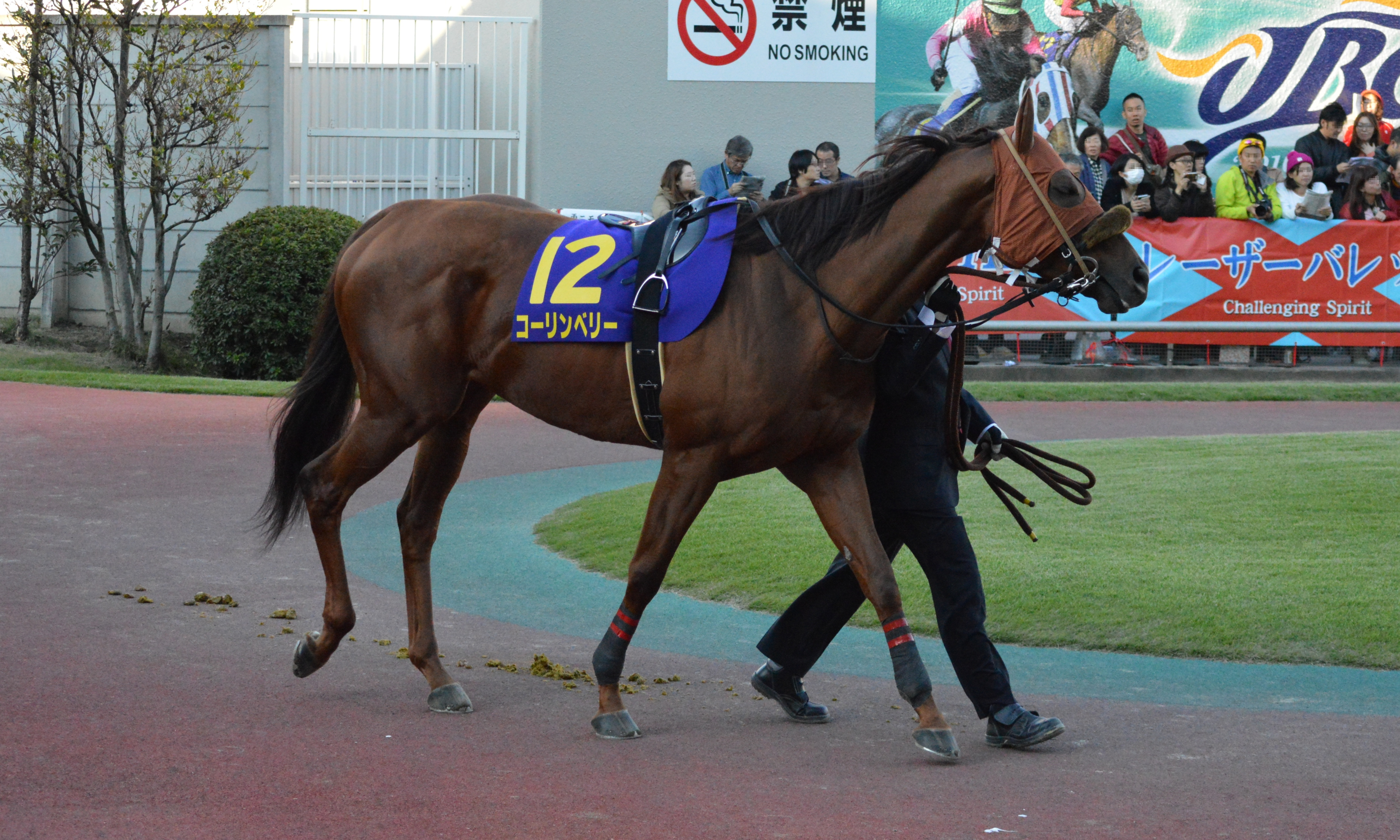 Japanese race horse Corin Berry at Kawasaki racecourse. Kawasaki (JPN) 3 Nov 2016 JBC Sprint (Local Grade 1) (Dirt) (3yo+) 7f Muddy RankHorse NameOddsAgeWgtTrainerJockey1stDanon Legend (USA)43/10H69-0Akira MurayamaMirco Demuro2ndBest Warrior (USA)9/10FH69-0Sei IshizakaKeita Tosaki3rdCorin Berry (JPN)81/10M58-9Jiro OnoKohei Matsuyama4th - 12th/omission